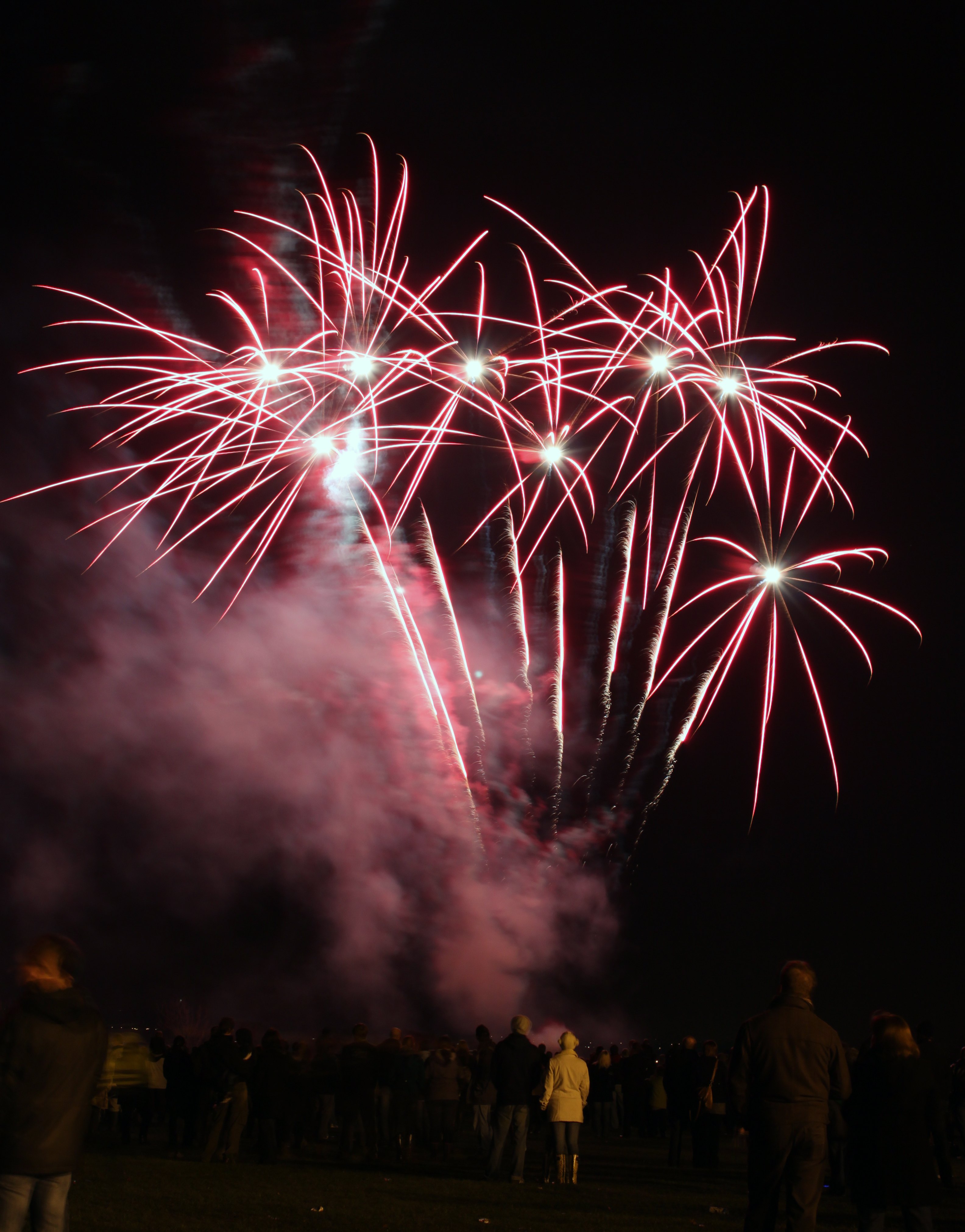 Fireworks display, Aykley Heads, Durham